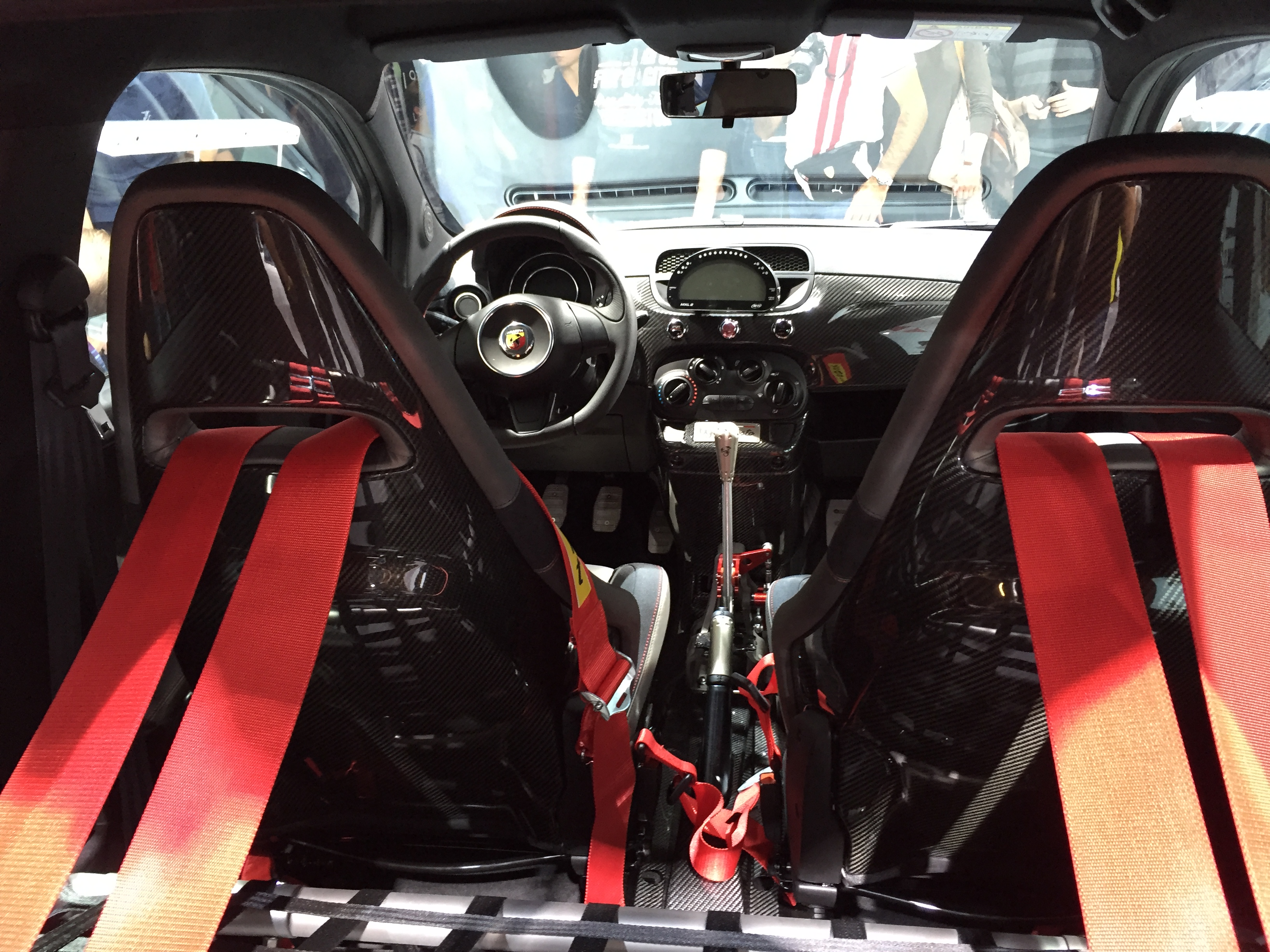 Abarth 695 Biposto interior. Sabelt seats and belts